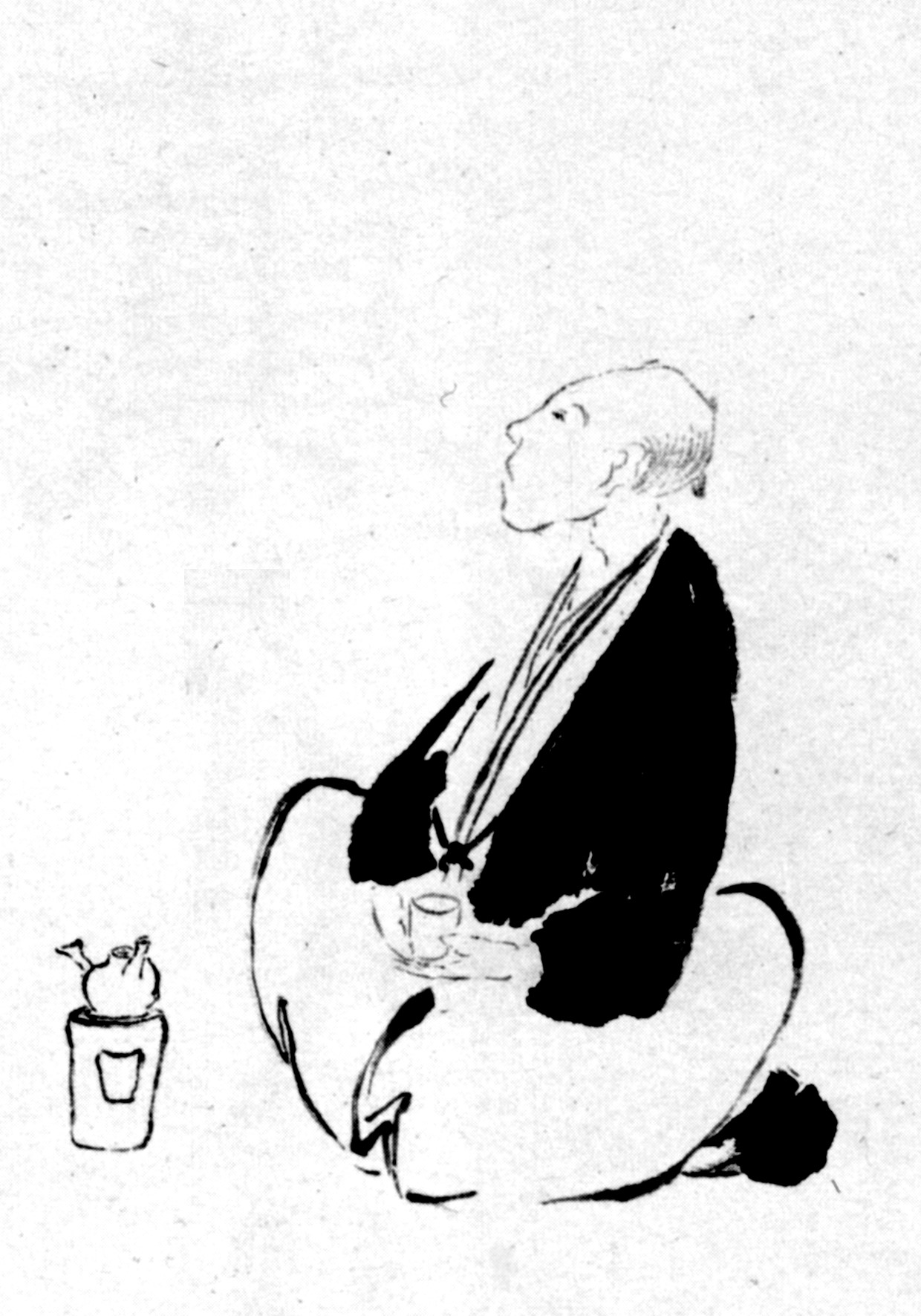 Portrait Aoki by Tanomura